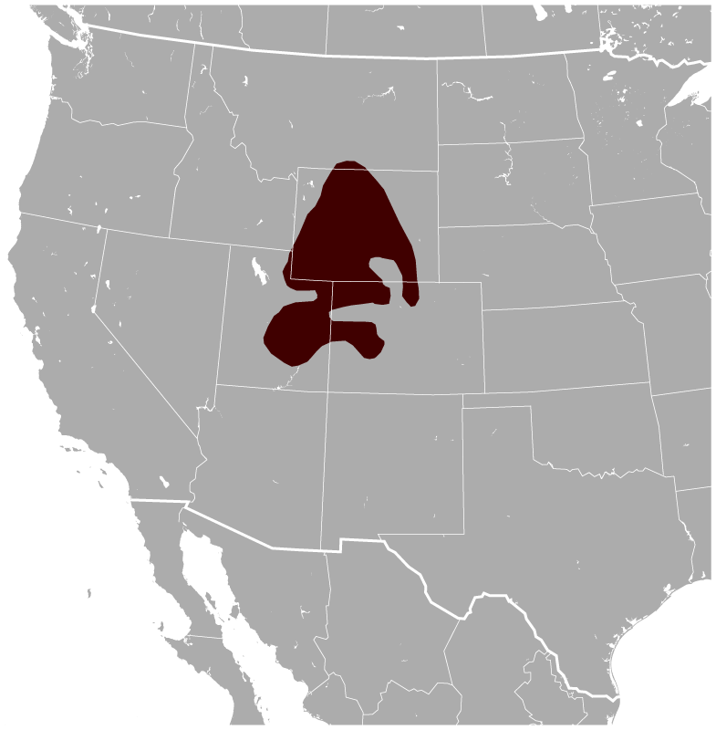 Geographical distribution of the White-tailed Prairie Dog Cynomys leucurus. The map was created using the Generic Mapping Tools, GMT, version 5.1.1.